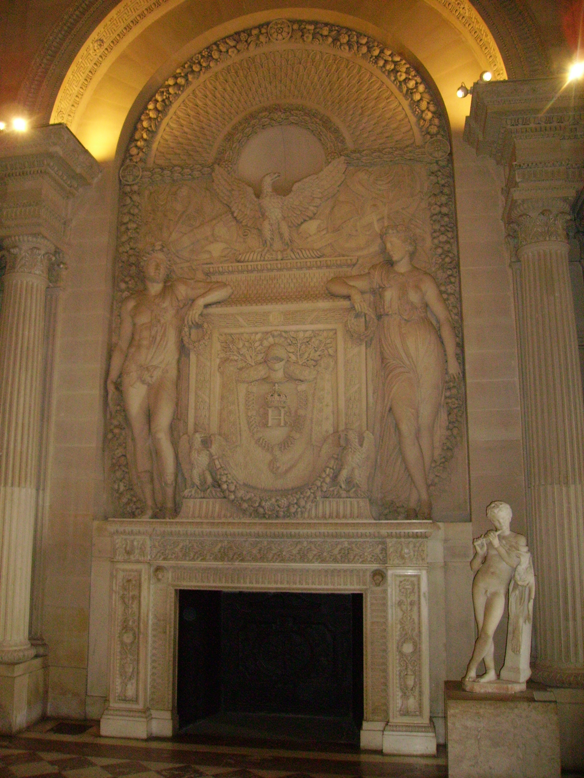 Young satyr playing the flute. Parian marble, Roman work of the 1st-2nd century CE after the style of Praxiteles, Skopas and Lysippos. From Italy.